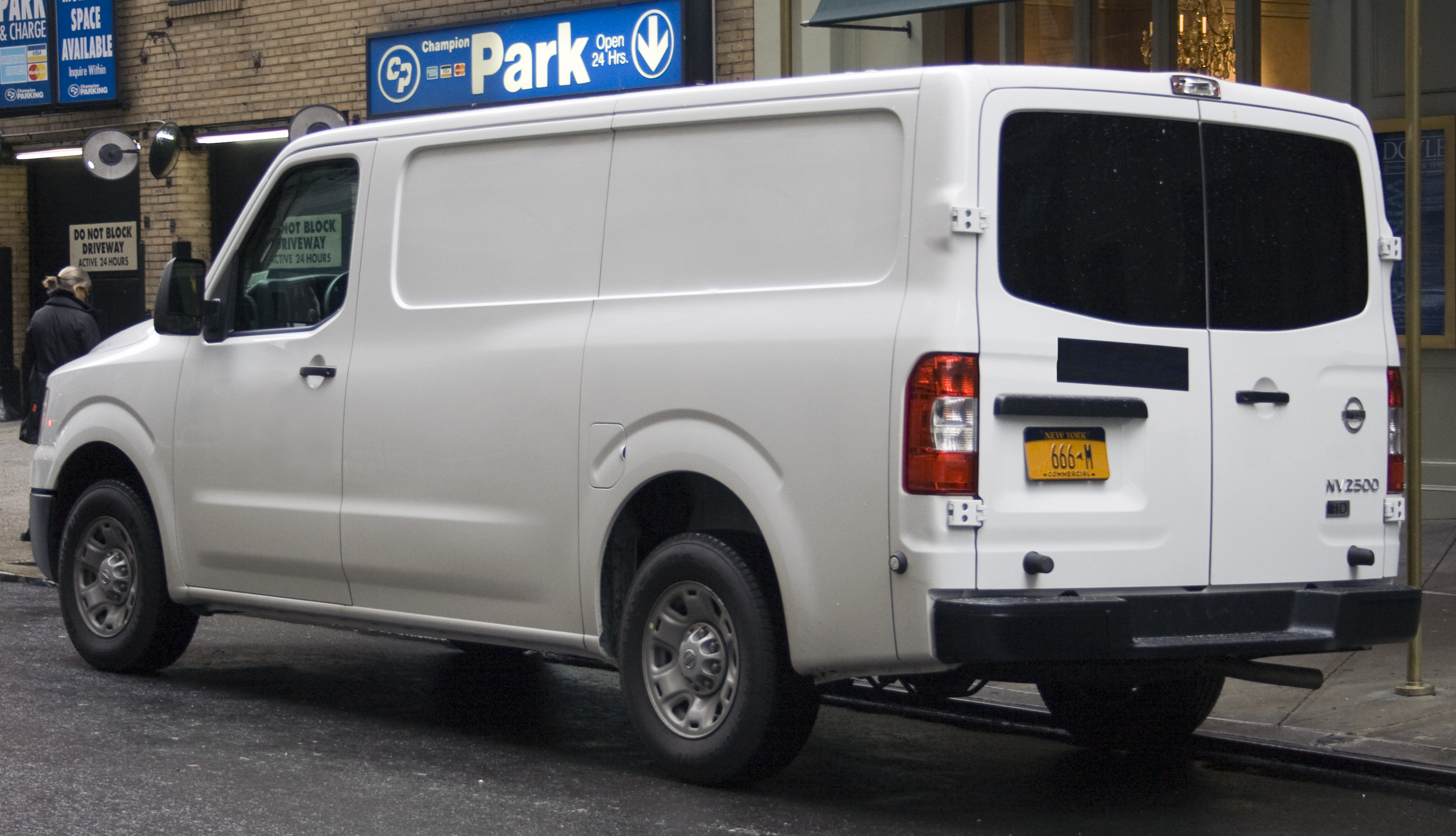 2012 Nissan NV2500 HD (Heavy Duty) van, with the low roof